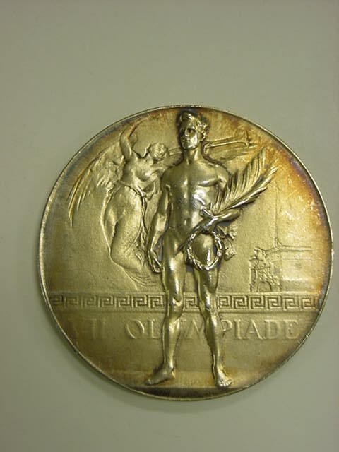 Accession: 2000-158-19 Medal, Olympics, 1920, Antwerp, Gold 2.35" Diameter One of four gold medals awarded to Captain Carl T. Osburn at the 1920 Olympics. He was awarded gold medals for: free rifle team, 300 and 600M free rifle team prone, army rifle 300m standing, 300m free rifle prone team. He was also awarded a bronze medal for 100m running deer single shots team and a silver medal for, 300m free rifle standing team. The medal was designed by Josue Dupon and the reverse features a monument to the mythical Roman Soldier Silvius Brabo, who was said to have thrown the hand of a toll charging giant into the River Scheldt at Antwerp. Collection of Curator Branch, Naval History and Heriatge Command.